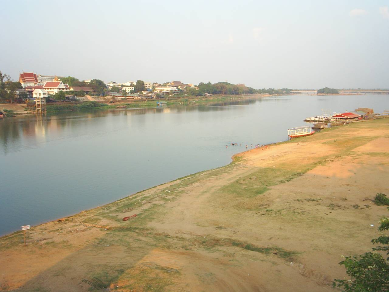 The Mun River in the dry season, taken 1/3/05 by User: Markalexander100; view from the Warin bank to the Ubon Ratchathani bank.